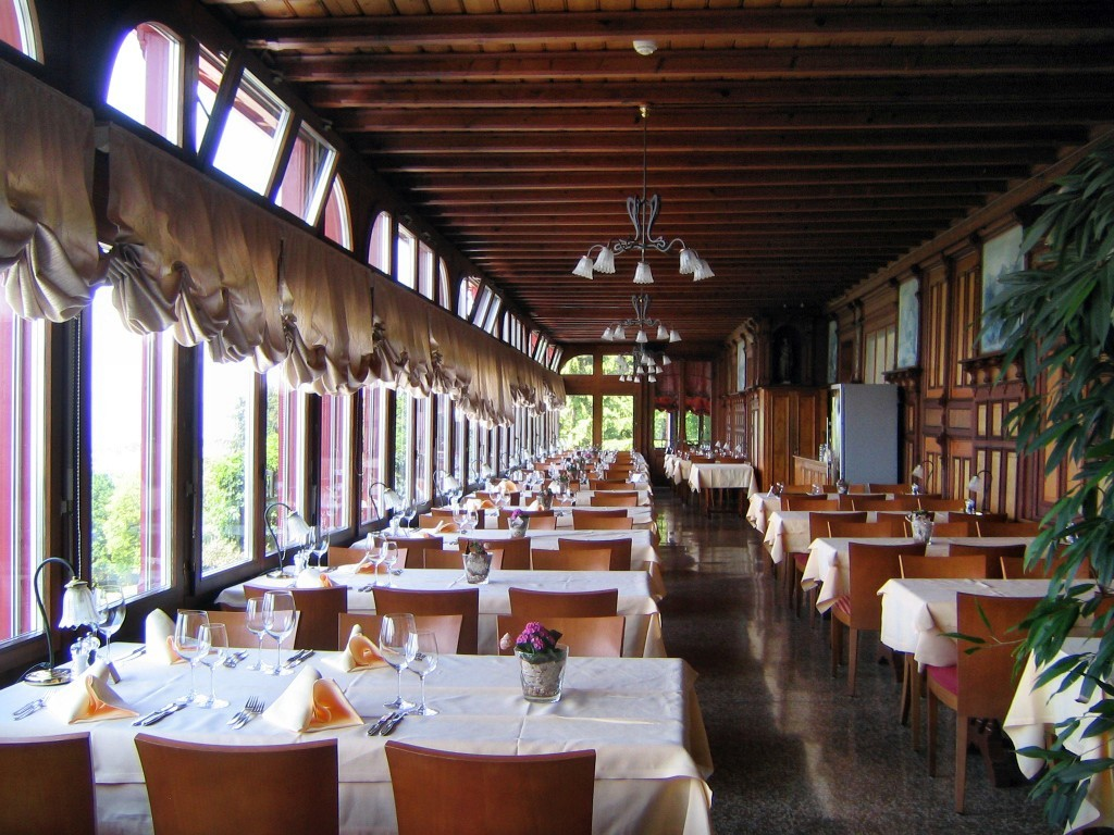 Art Nouveau hotel "Paxmontana" in Flüeli-Ranft, Switzerland; Restaurant Veranda